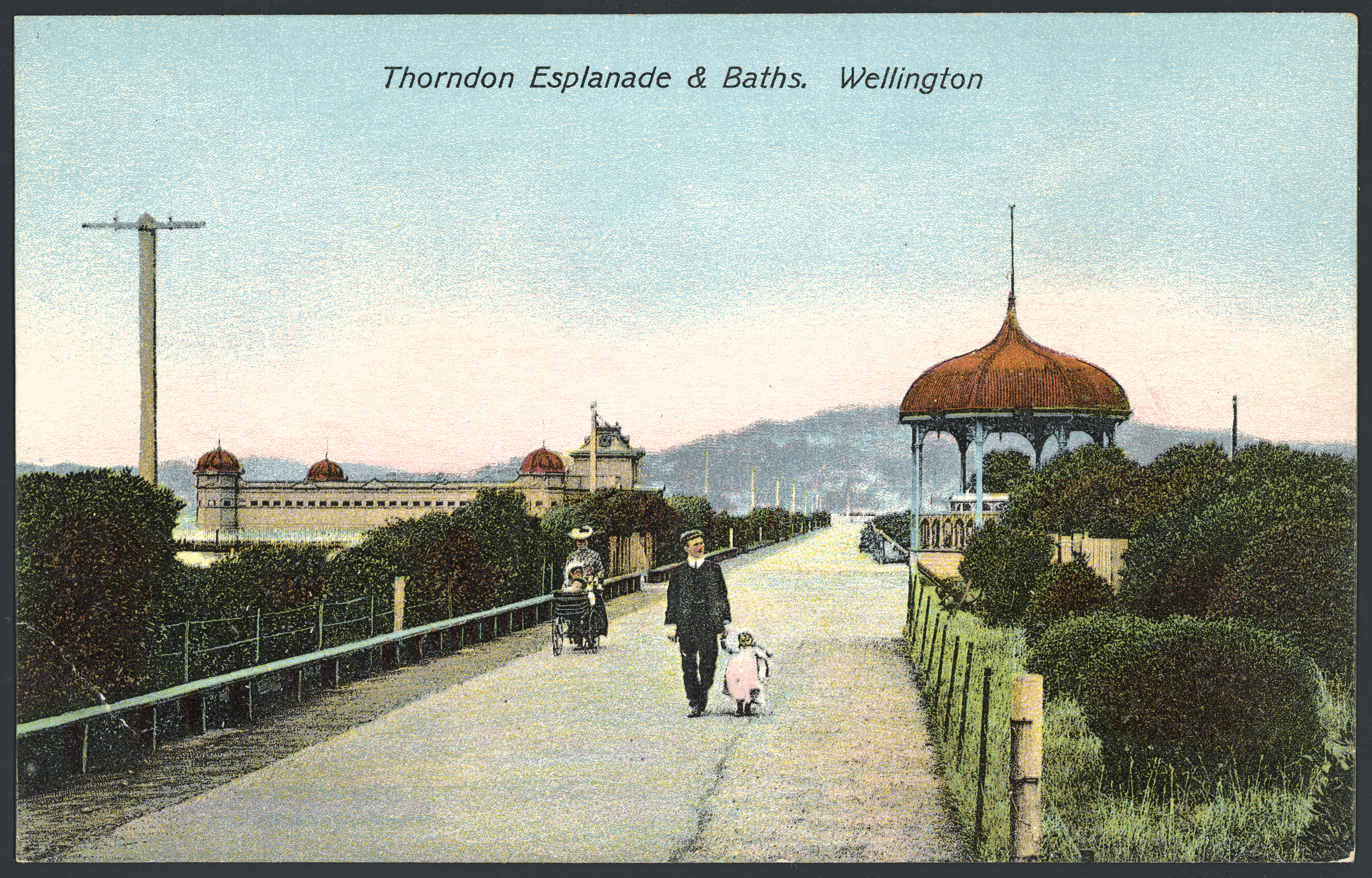 Shows a man and small child, and a women pushing a pram, walking along the Thorndon Esplanade, with the distinctive four-domed Thorndon Baths in the left background. There is a domed bandstand at the right. Quantity: 1 colour photo-mechanical print(s) on postcard.. Physical Description: Chromolithograph, 88 x 138 mm. [Postcard]. Thorndon Esplanade & Baths, Wellington. New Zealand post card. G & G Series no. 105. Printed in Berlin [ca 1905]. [Postcard album of cards collected by Joye Eggers / Taylor. 1905-1970s].. Ref: Eph-B-POSTCARD-Vol-6-028-1. Alexander Turnbull Library, Wellington, New Zealand.